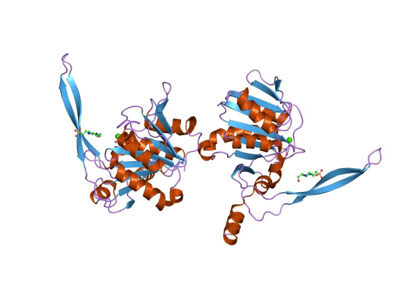 Cartoon representation of the molecular structure of protein registered with 1j9k code.